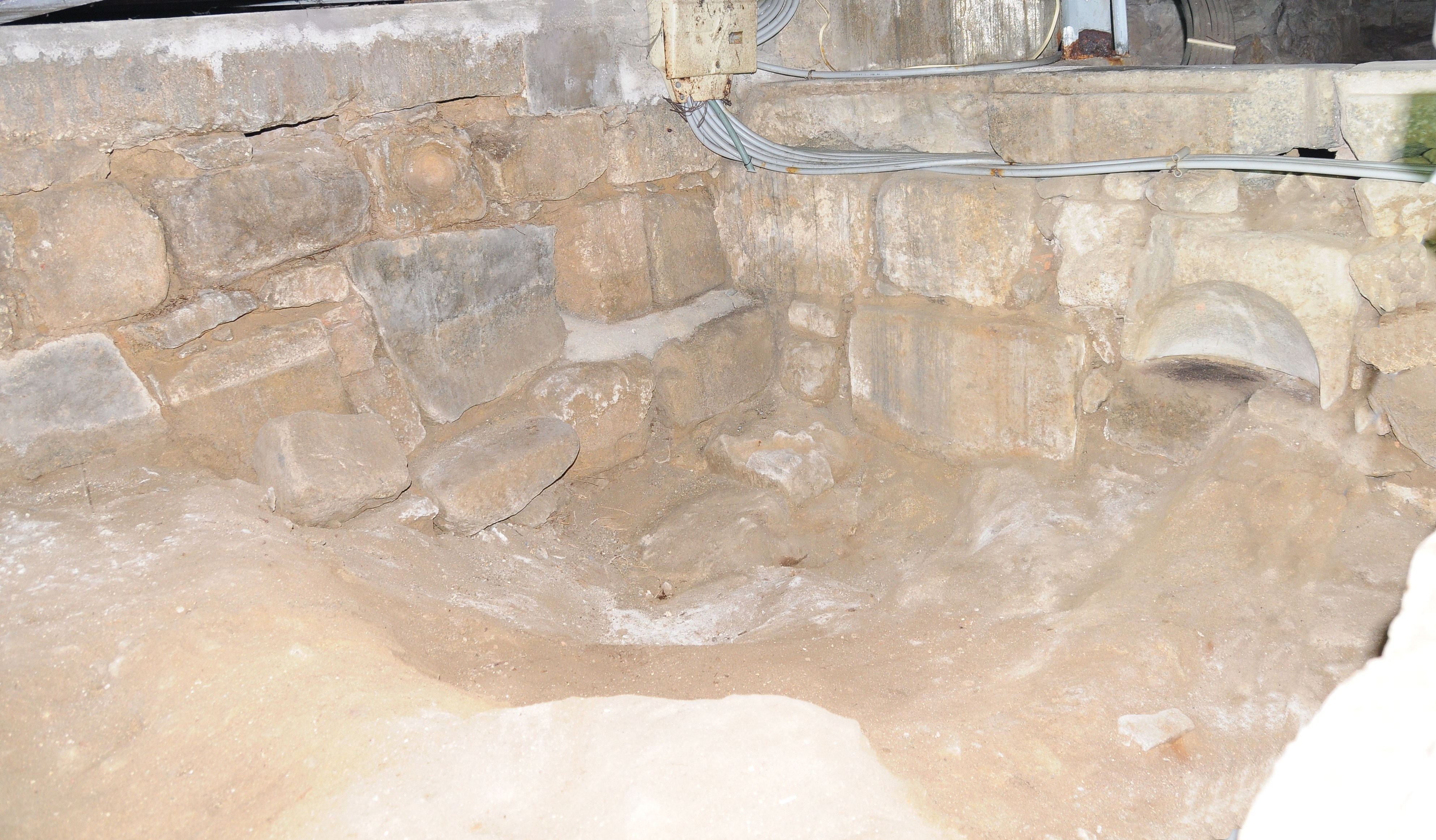 Martin of Braga Basilica, in Dume, Braga, Portugal